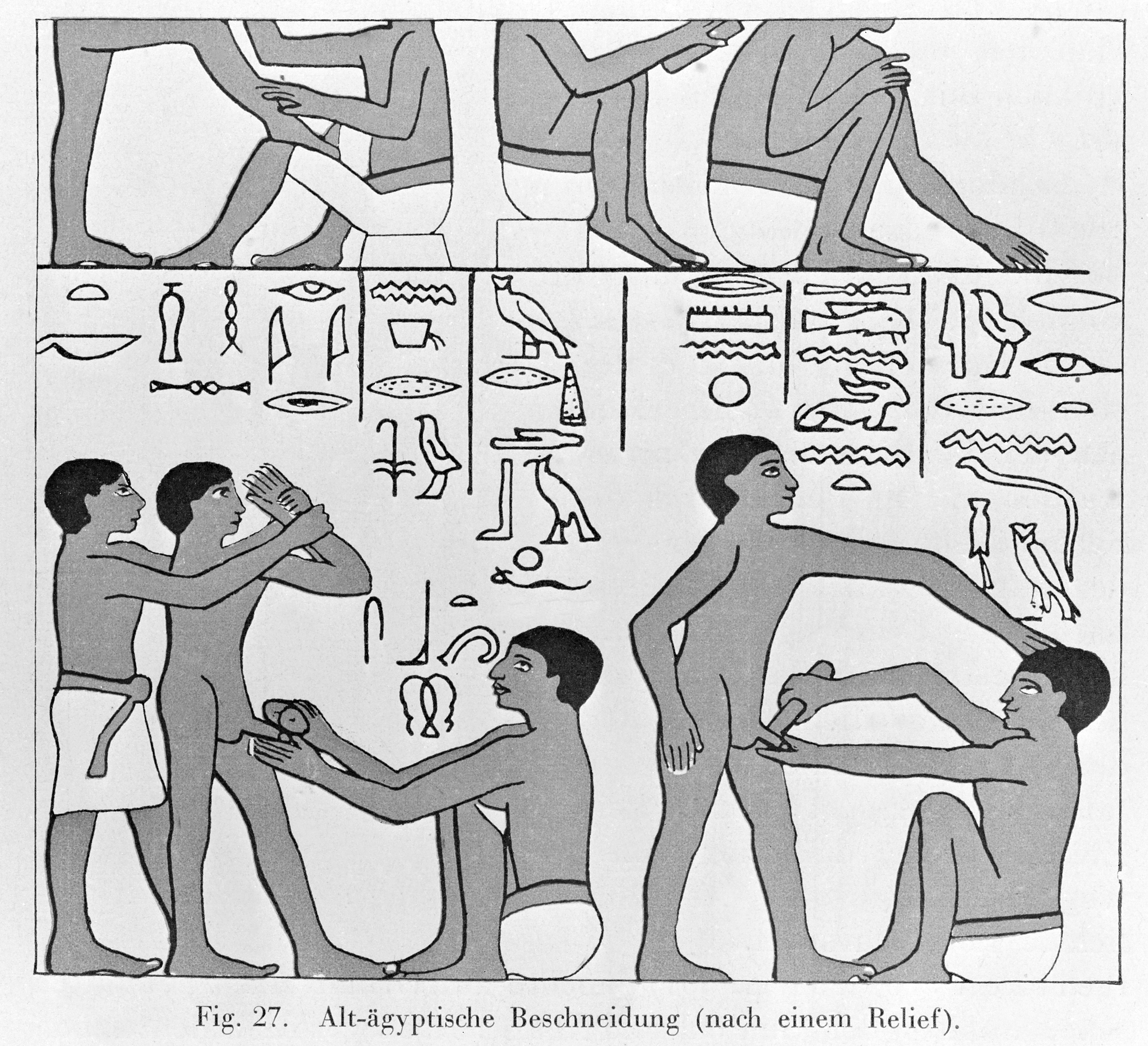 Figures showing a circumcision General Collections Keywords: Circumcision, Male; Felix Bryk